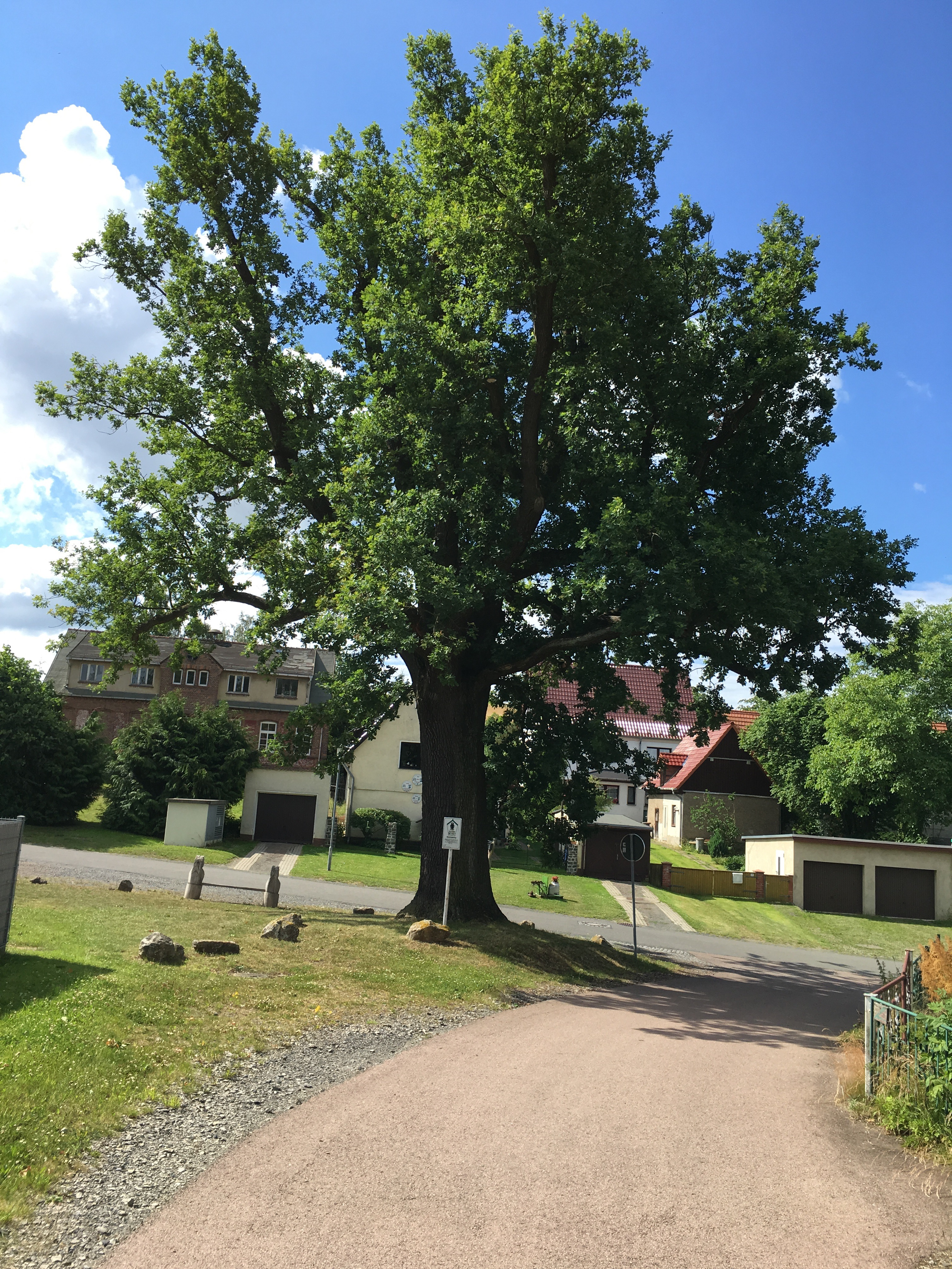 Peterseiche in Schielo